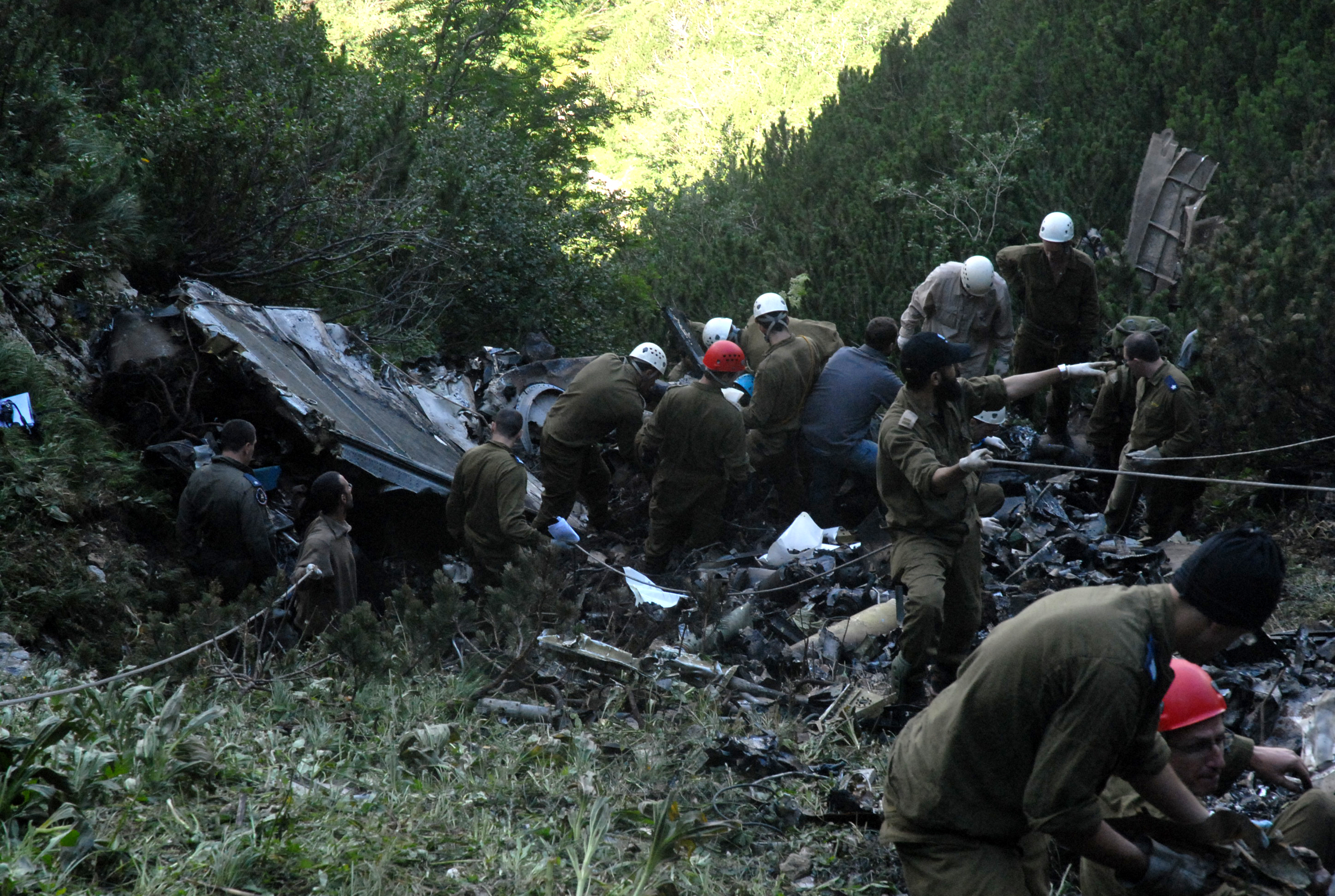 July 28, 2010. The site of the crash in the Carpathian mountains, Northern Romania. For more information: dover.idf.il/IDF/English/News/today/10/07/2801.htm Photography: SSgt. Michael Shvadron, IDF Spokesperson's Unit. The Israel Defense Forces Facebook • blog • Twitter